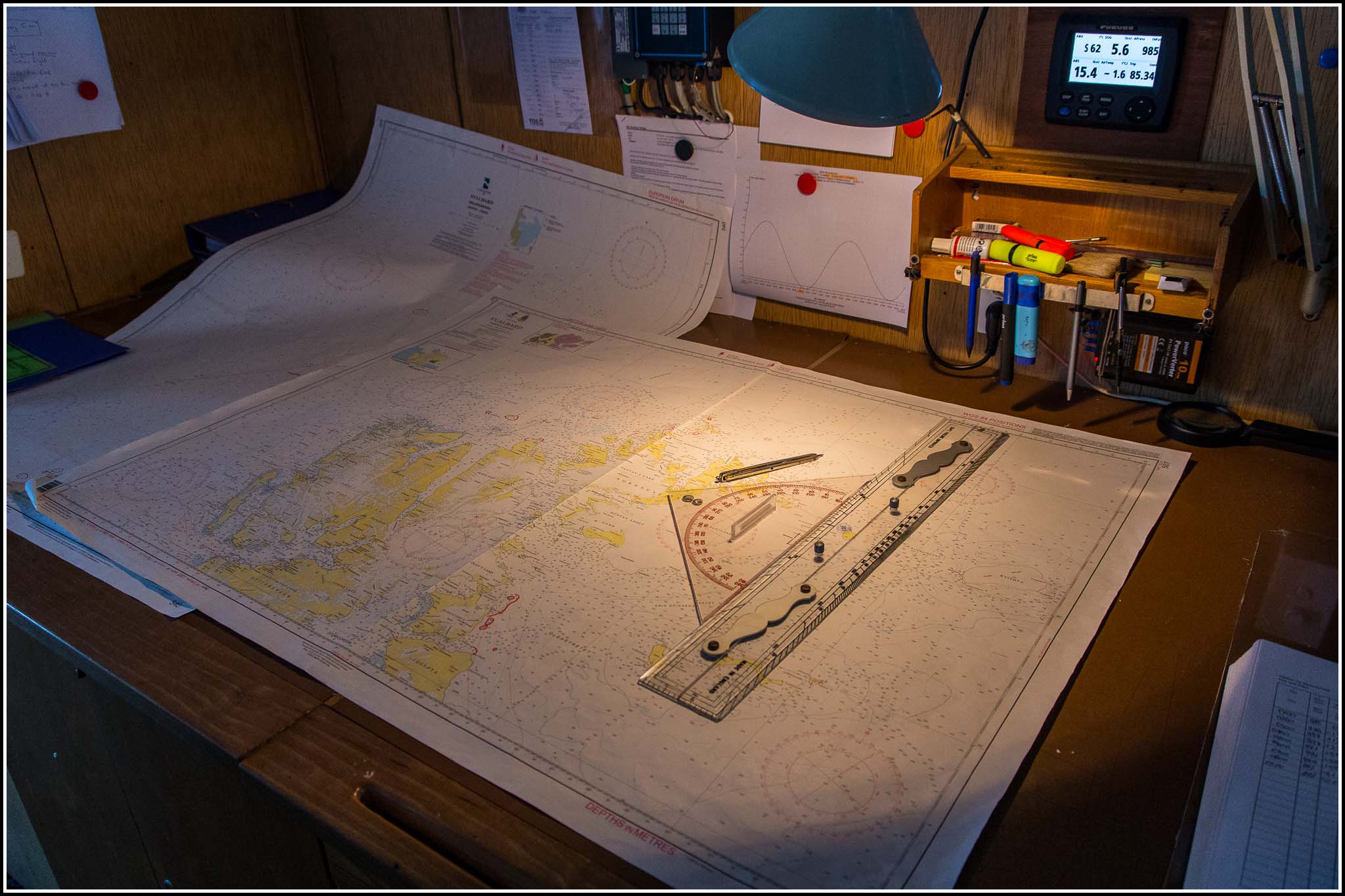 A selection of images from a recent trip to Svalbard. See the full set here eventually...